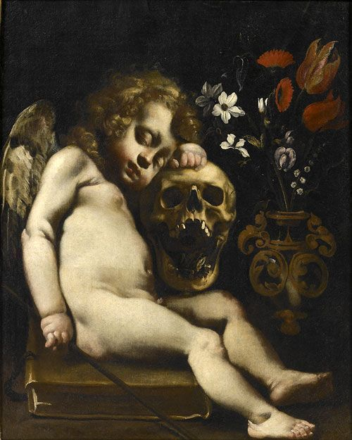 "Cupidon endormi"